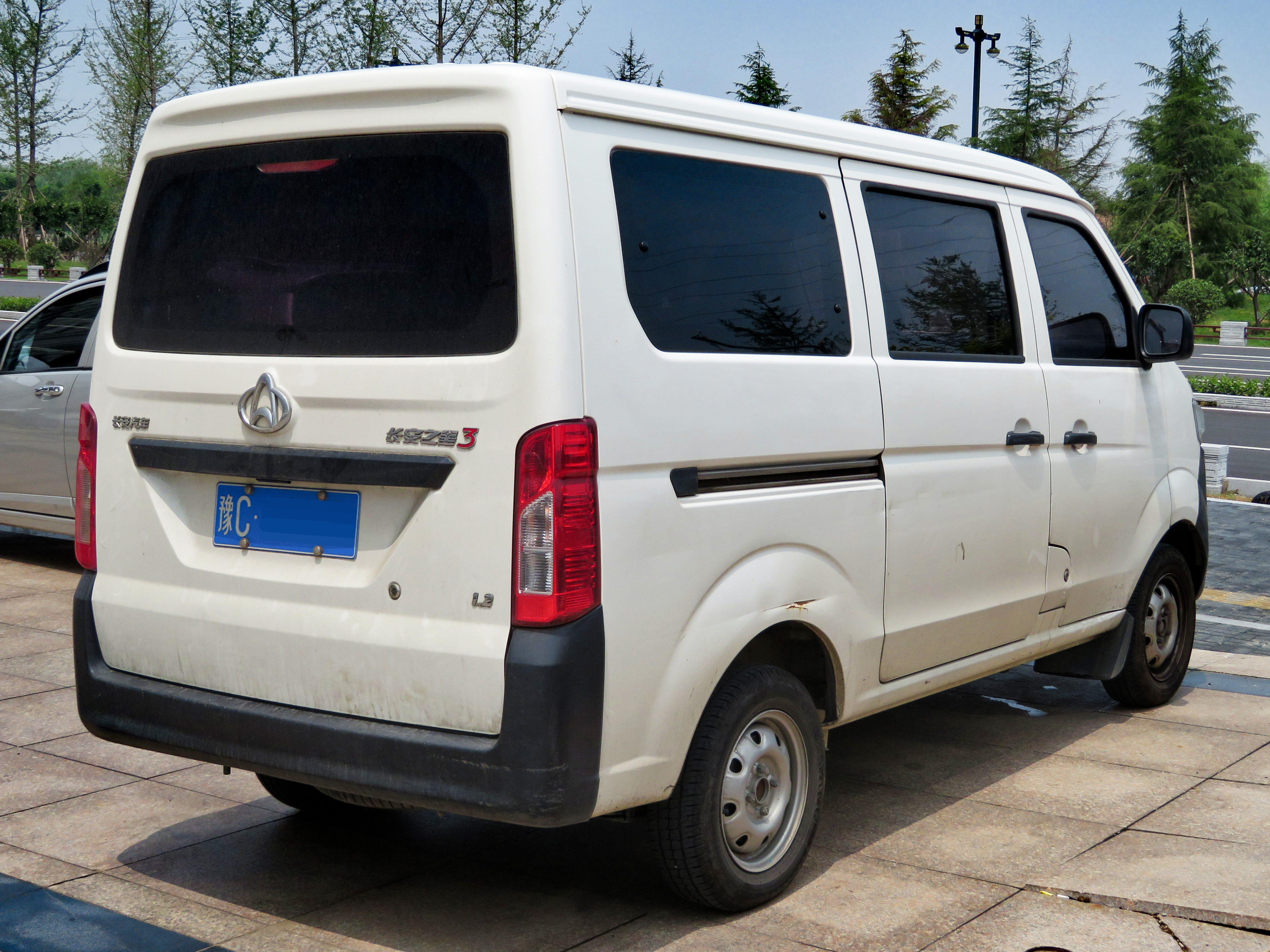 A 2018 Chang'an (Chana) Star 3 photographed in Luolong District, Luoyang, Henan province, China